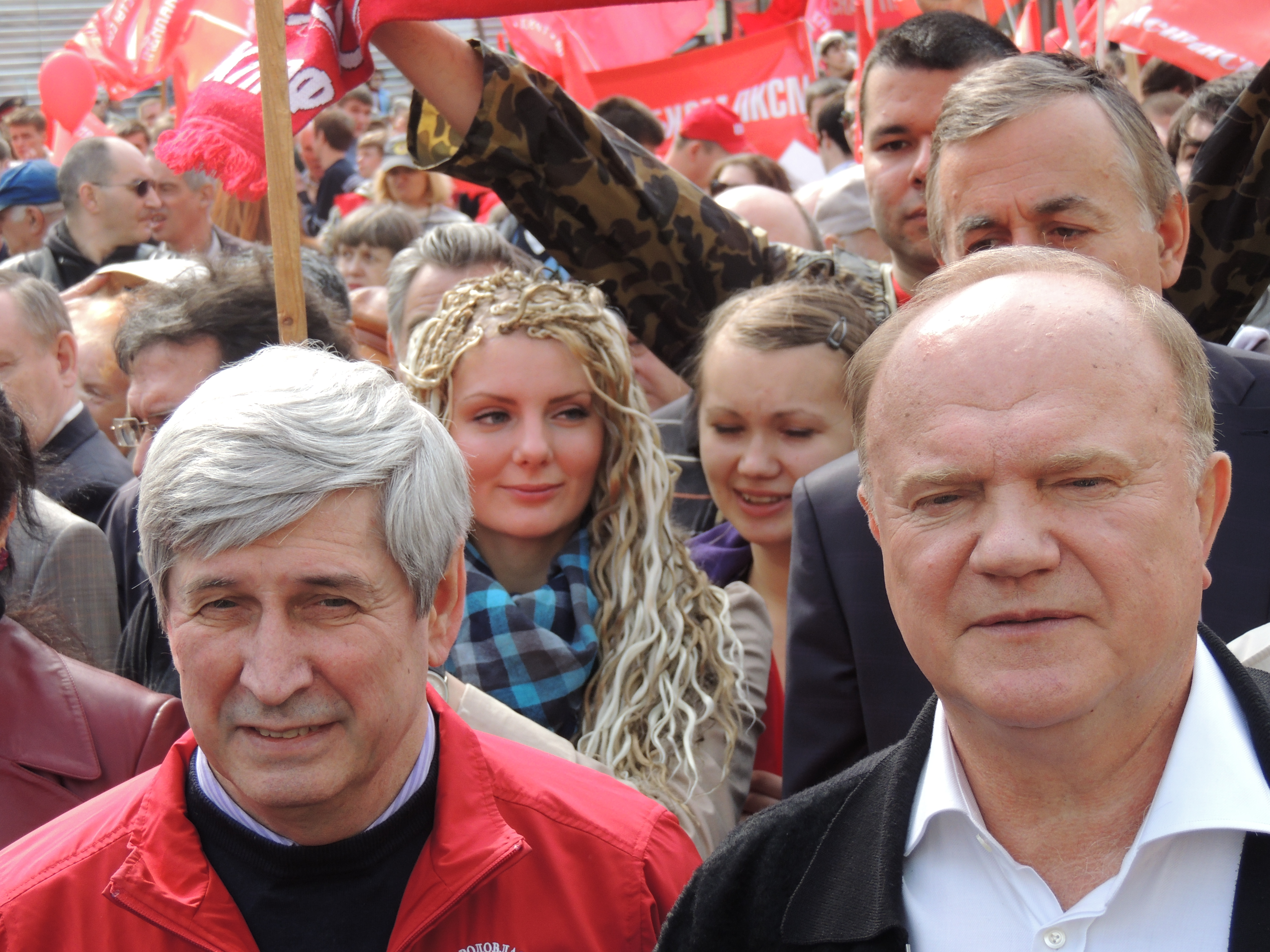 Lider of the Communist party of the Russian Federation Gennady Zyuganov (at right) and vice-lider Ivan Melnikov (at left) at Moscow rally 1 May 2012